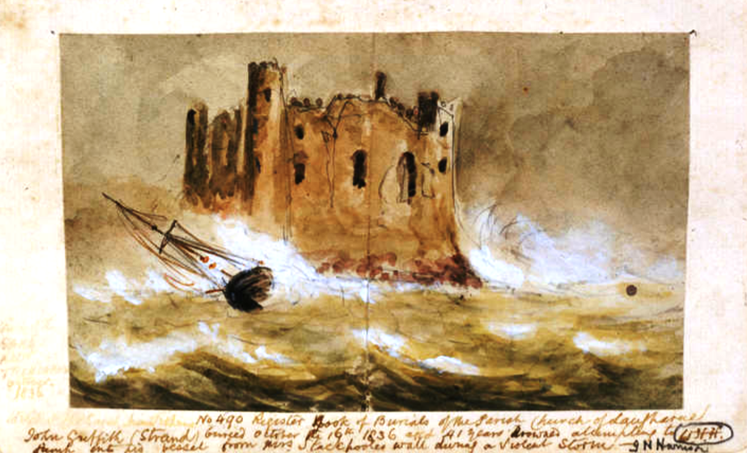 This watercolour sketch has the following inscription. "Wreck of the Sarah Ann Trehearne, Laugharne, October 1836'. 'No.490 Register Book of Burials of the Parish of Laugharne. John Griffiths, (Strand) buried October the 16th 1836 aged 41 years. " John Griffiths, the ship's owner, was drowned whilst trying to jump on board from the garden wall of Island House, then tenanted by Mrs Stackpoole, during a violent storm. At the time of this shipwreck, the sea came in much further than it does today at Laugharne. Harrison also wrote an epic poem “The Night on the Mast” in 1868, commemorating of the wreck of the schooner “Gem” of Hull on Laugharne Burrows in 1867.